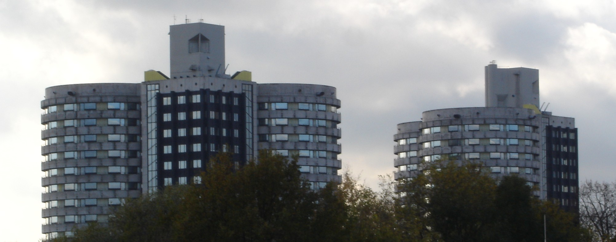 University Hospital in Muenster (Westphalia), Germany (panaromashot of the two towers)